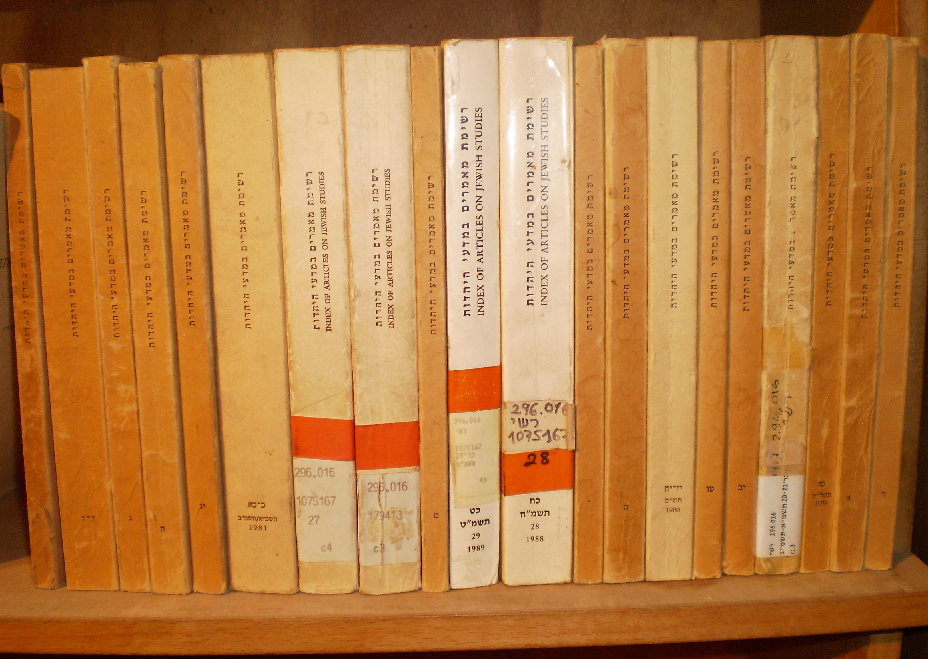 Rambi, printed edition